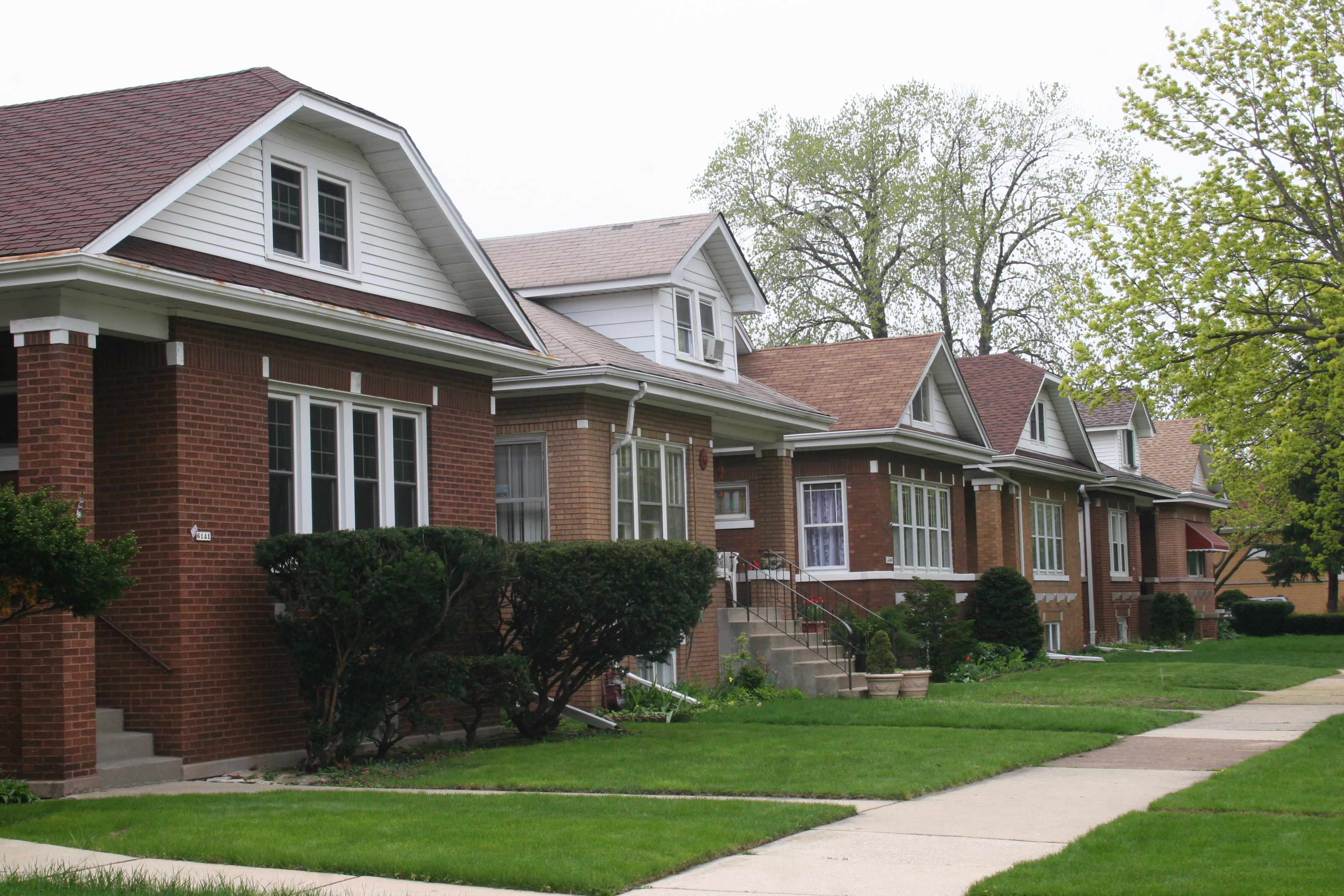 Houses along the 5600 block of West Waveland Avenue, Chicago, IL